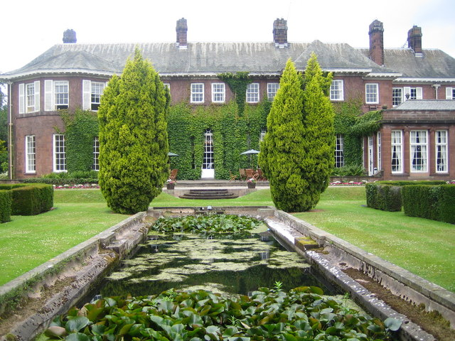 Photograph